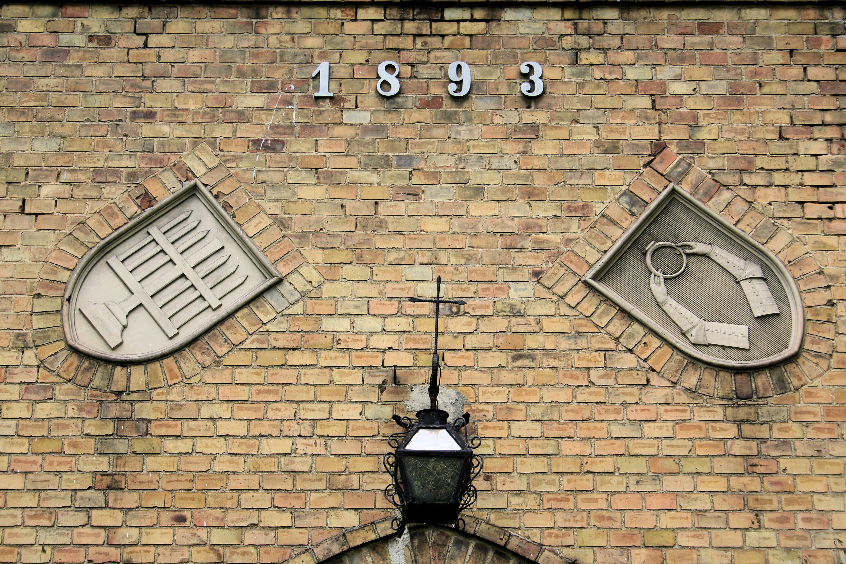 Goszkow church tower; von Levetzow (left) and von Oertzen (right) coats of arms